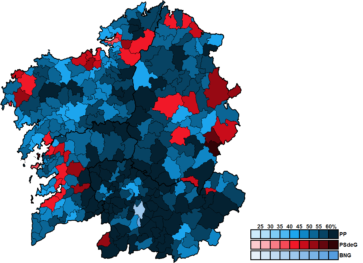 Most-voted party in Galicia municipalities, showing vote share obtained, in the Spanish general election, 2004.